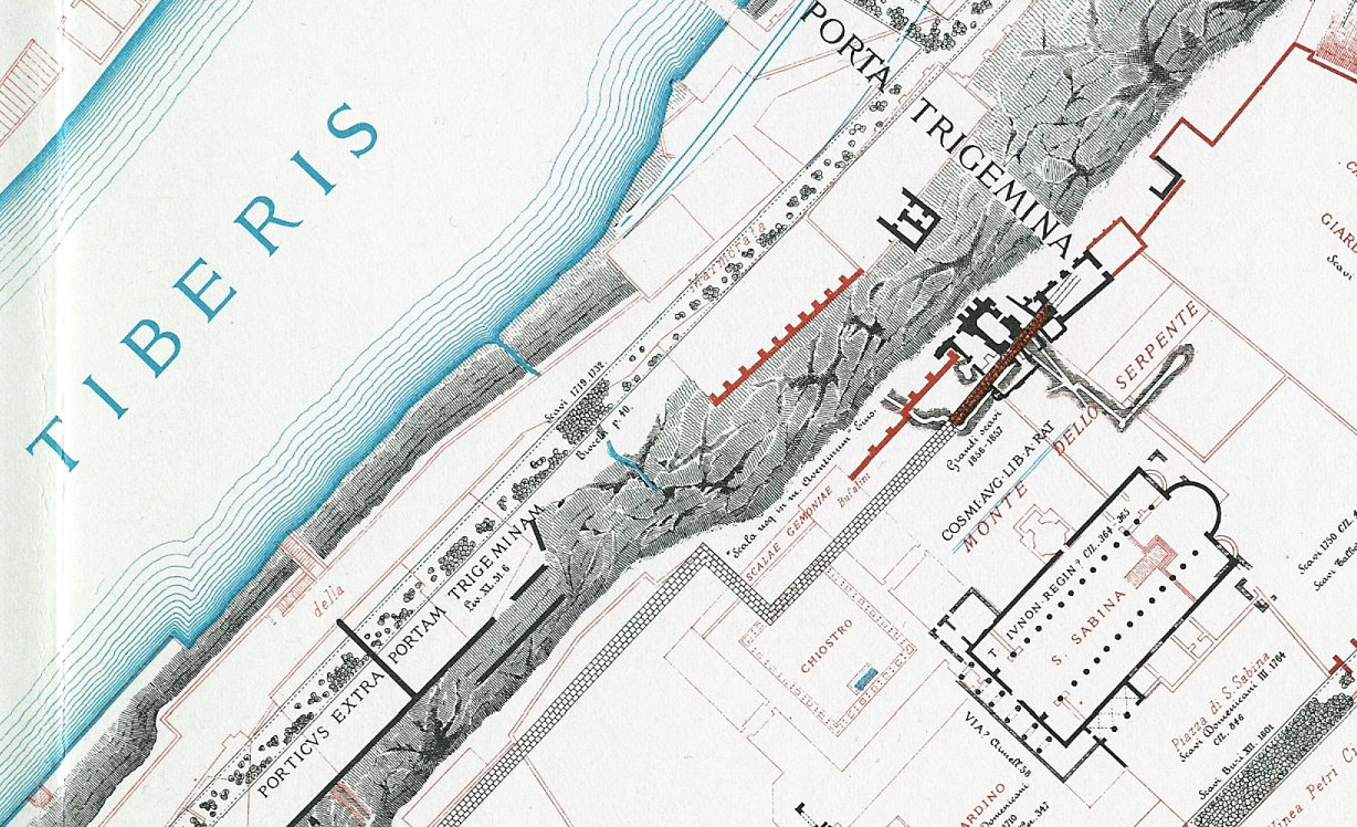 extract from Forma Urbis Romae representing the Western slope of Aventine (Rome)